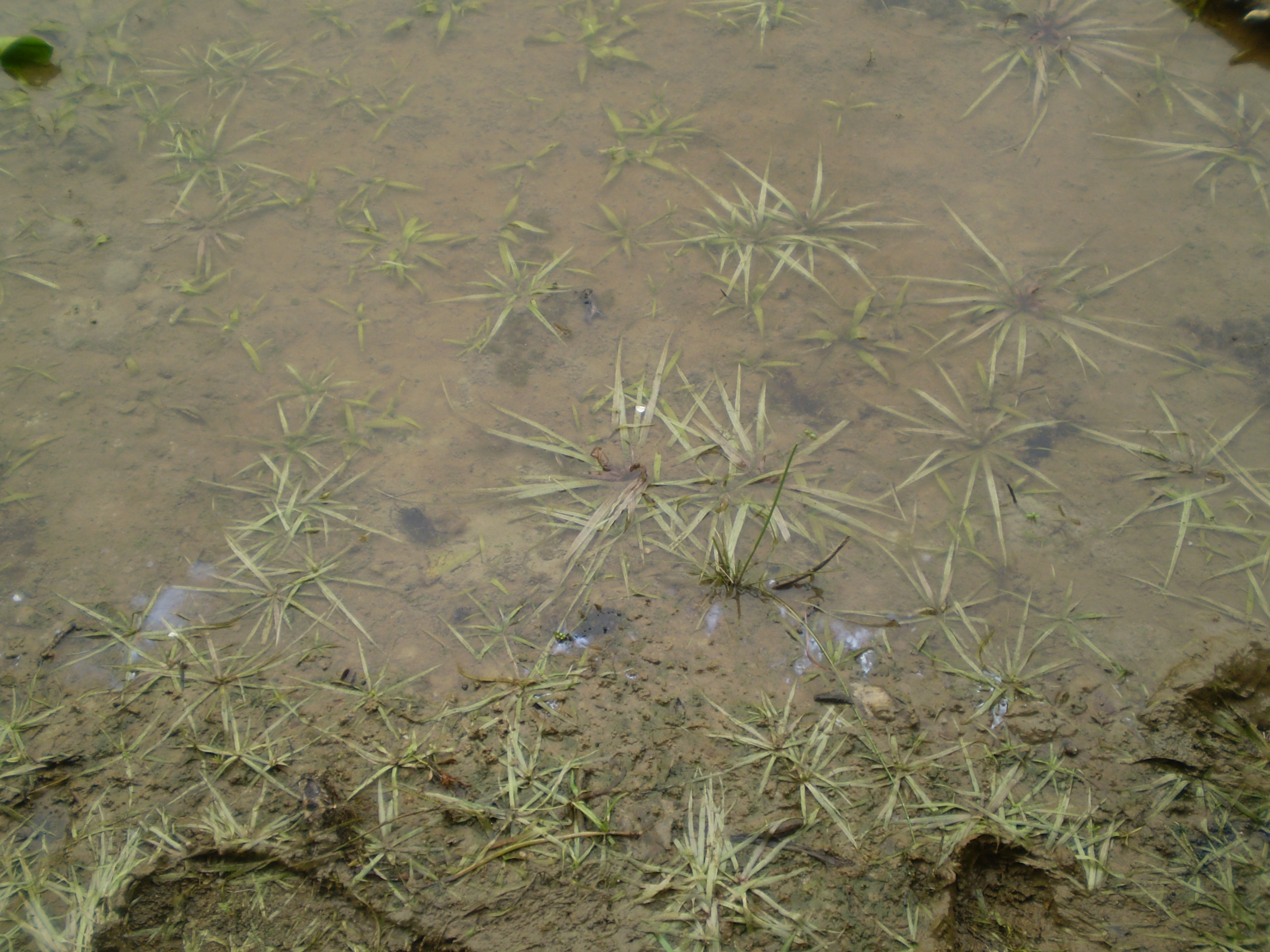 Blyxa echinosperma community